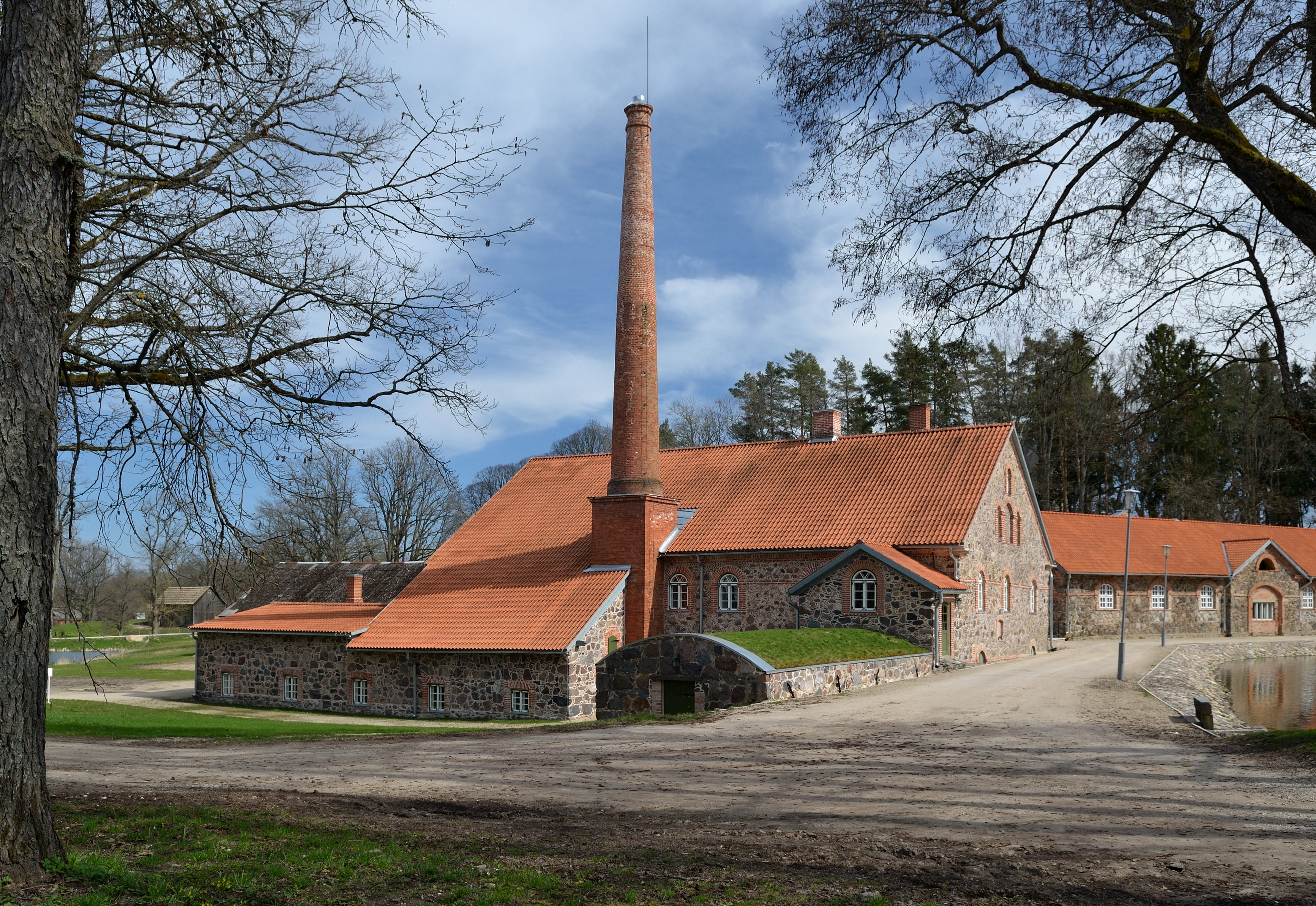 Olustvere manor distillery